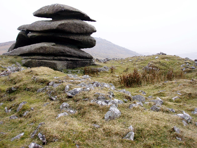 Ring Cairn at Showery Tor. The ring cairn round Showery Tor of which Craig Weatherhill, in "Cornovia: Ancient Sites of Cornwall & Scilly" says "A natural formation of weathered granite, 5.0m high ...is surrounded by a massive ring cairn of piled stone 30m in diameter and up to 1.2m high. The natural formation was evidently intended as a focal point. No excavations have been recorded at this site, so it is not known how many, if any, burials were associated with this presumably Bronze Age site"